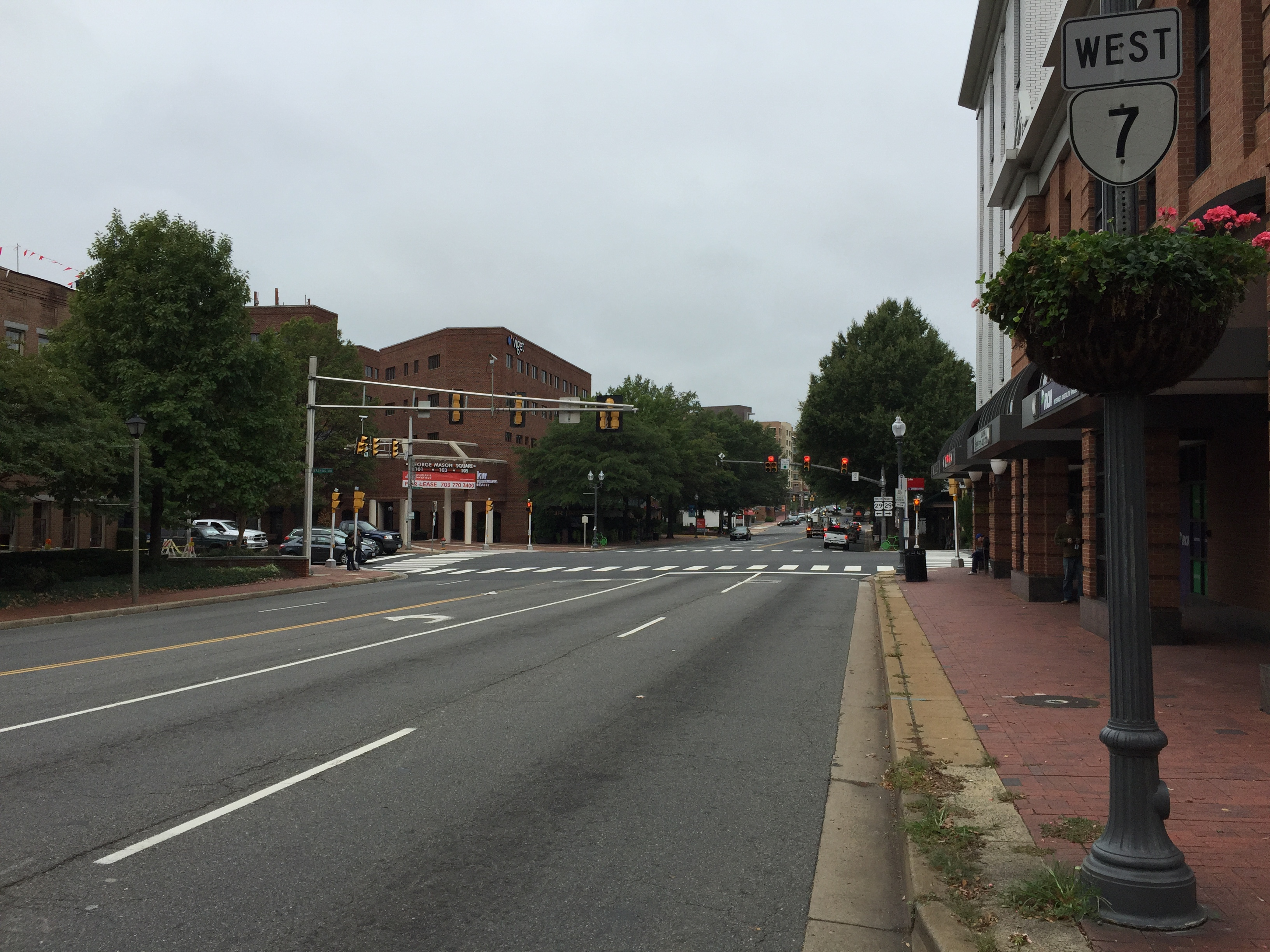 View west along Virginia State Route 7 (Broad Street) between Lawton Street and U.S. Route 29 and Virginia State Route 237 (Washington Street) in Falls Church, Virginia